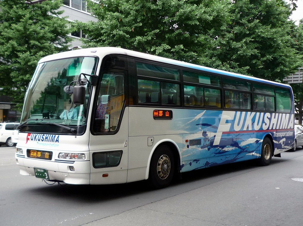 Fukushima kotsu Mitsubishi Fuso Aero bus(KL-MS86MP) Highwaybus Sendai - Koriyama